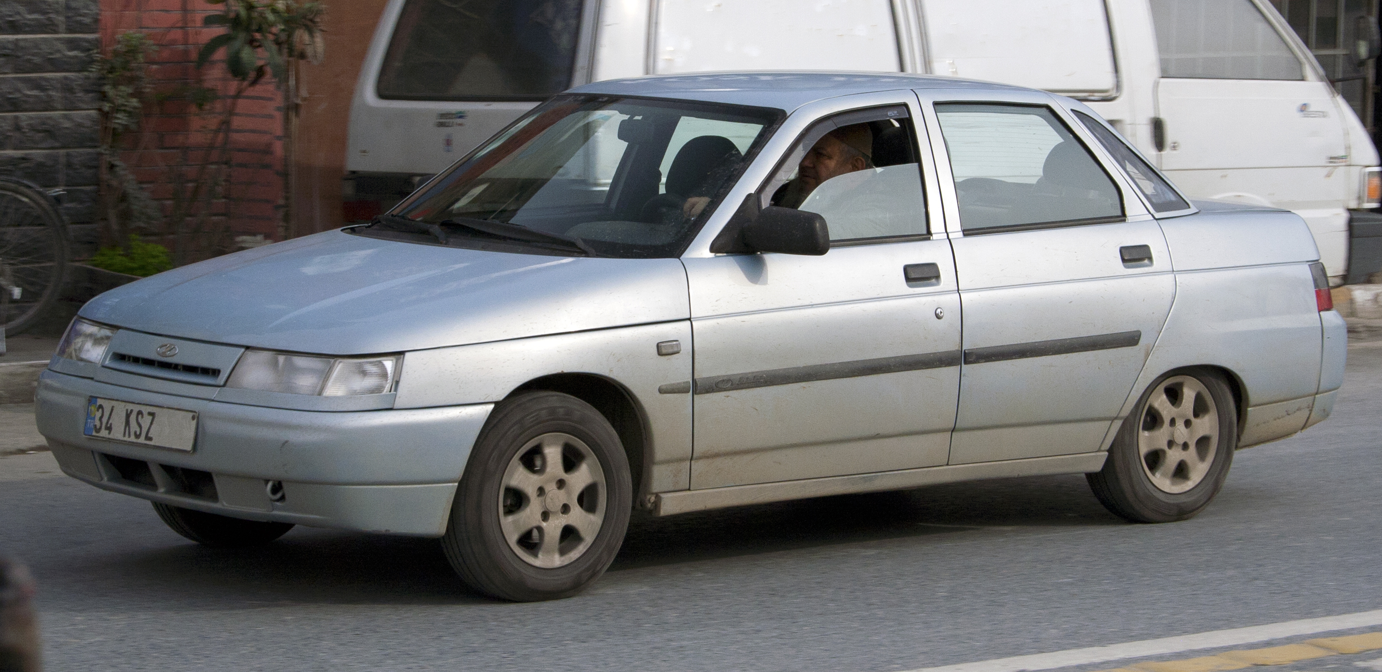 A Lada 110 sedan in Hasköy, Istanbul.